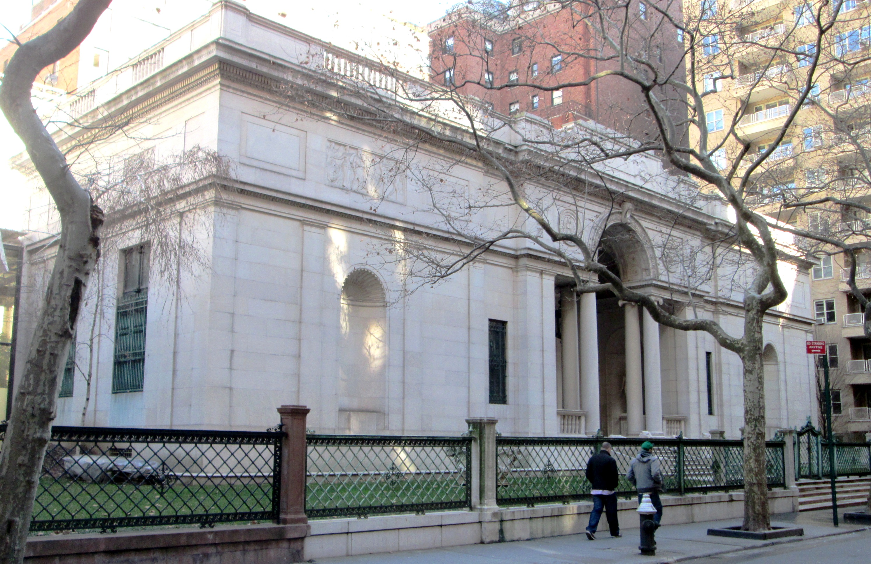 The Morgan Library & Museum (formerly the Pierpont Morgan Library) is a museum and research library located on Madison Avenue at East 36th Street in Manhattan, New York City. It was founded in 1907 to house the private library of J.P. Morgan, which included, besides the manuscripts and printed books, some of them in rare bindings, his collection of prints and drawings. The original library building was built from 1902-1907 and was designed by Charles McKim of the firm McKim, Mead and White, with sculptures by Edward Clark Potter. It cost $1.2 million. The library was made a public institution in 1924 by his son, in accordance with Morgan's will. An annex building, designed by Benjamin Wistar Morris, was added in 1927-28, and a modernist entrance building, designed by the Renzo Piano Building Workshop and Beyer Blinder Belle, was added in 2006. (Source: Guide to NYC Landmarks (4th ed.))